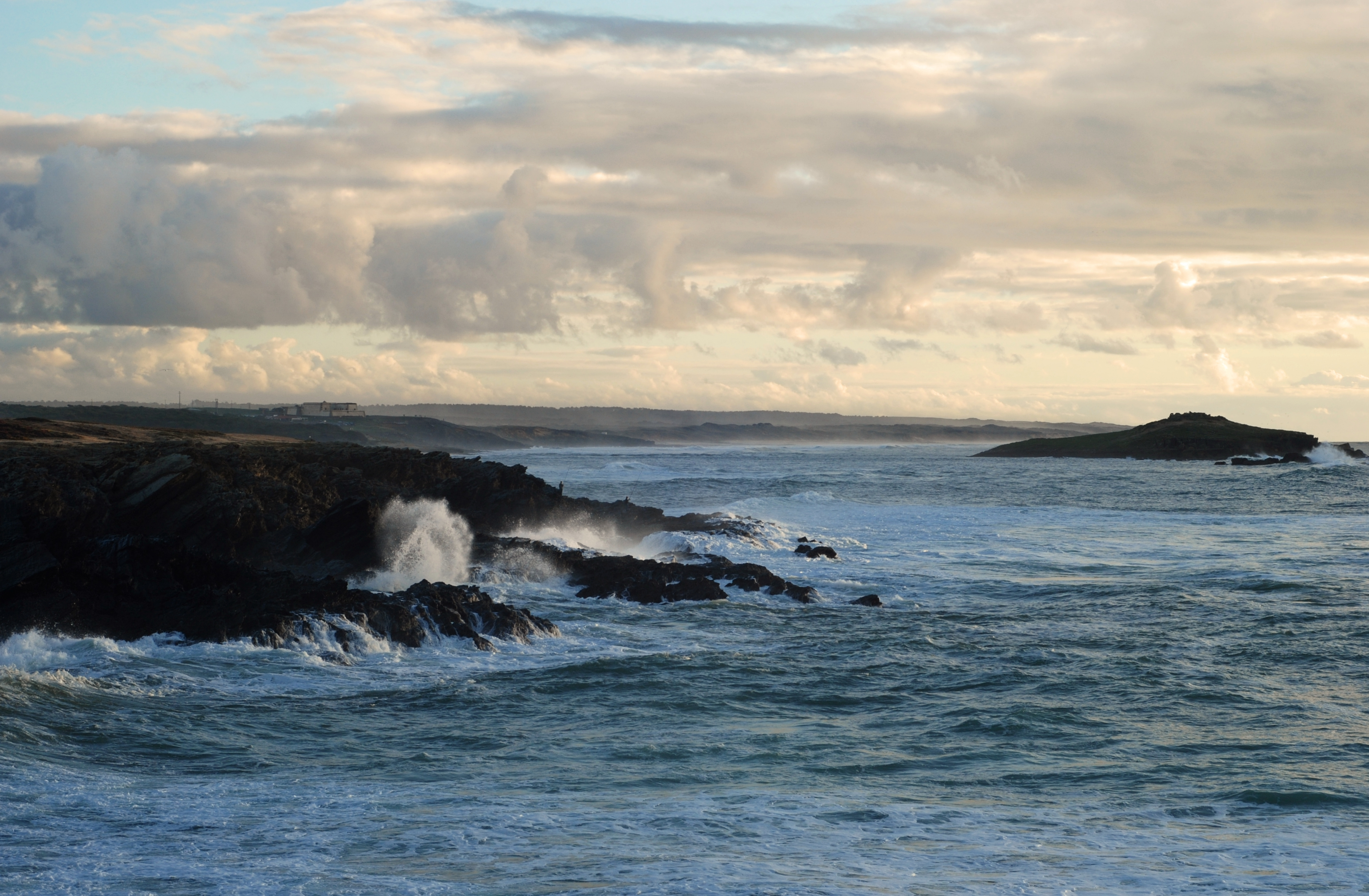 The Island of Pessegueiro as seen from Porto Covo, Portugal, in a winter day